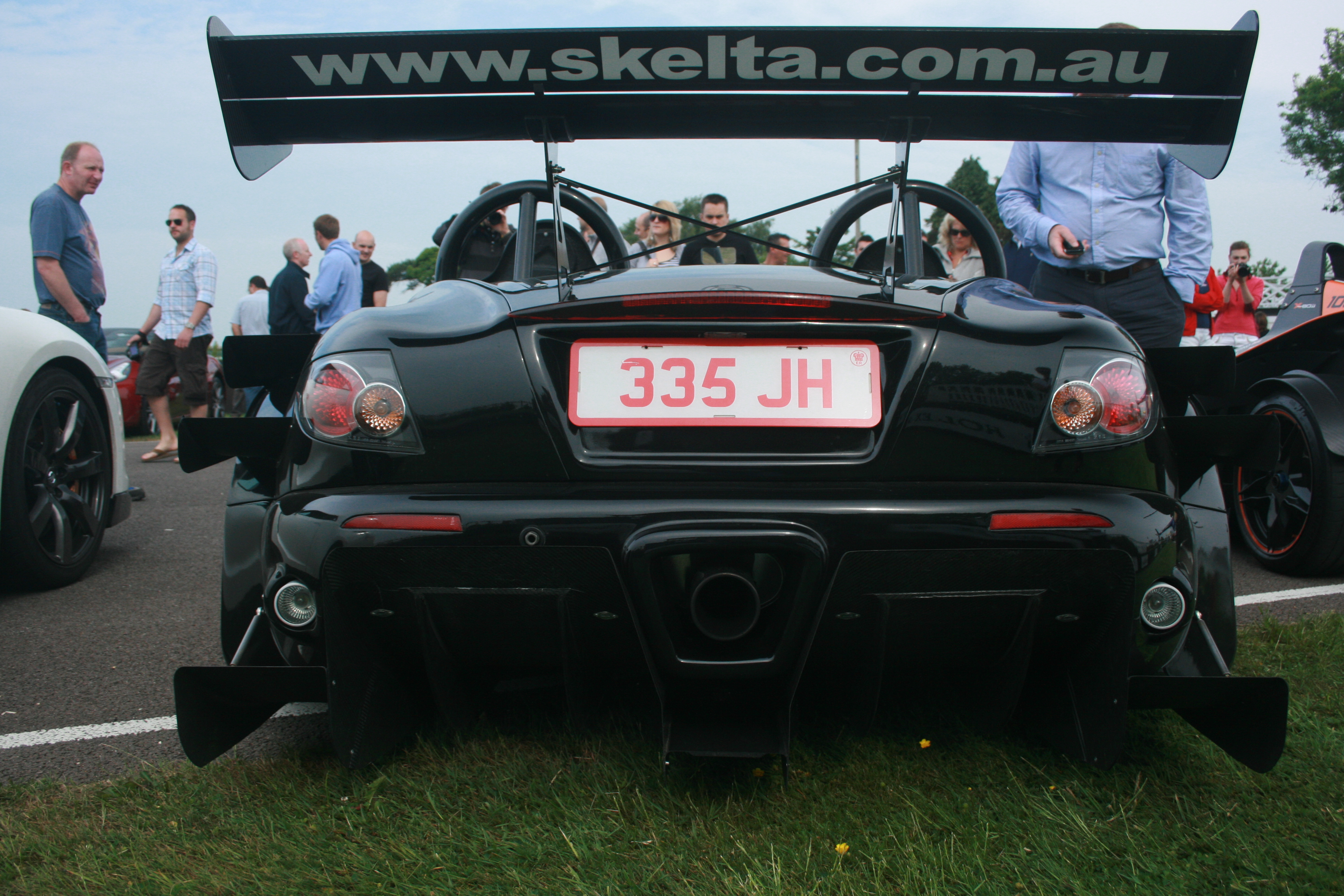 How many aero devices?